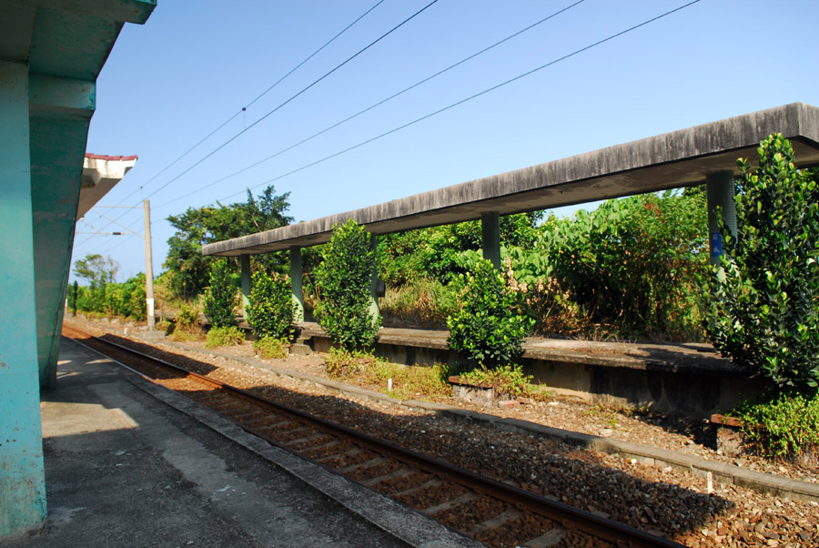 ShihCheng Station is a small local train station of Yilan Line, part of Taiwan's eastern rail line. It's located within the boundary of TouCheng Town, YiLan County. This photo shows the abandoned side platform.